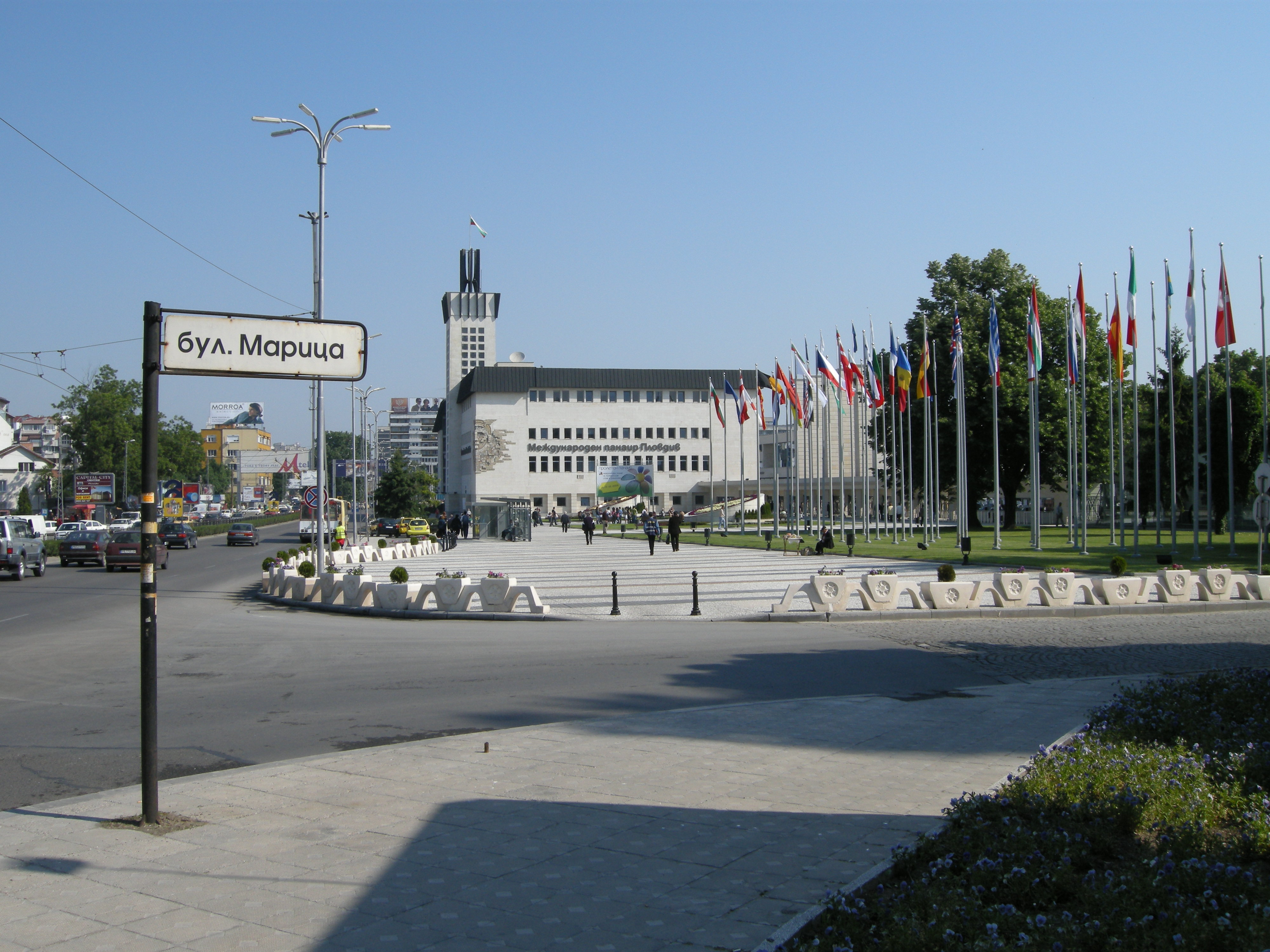 International Fair Complex in Plovdiv, Bulgaria.